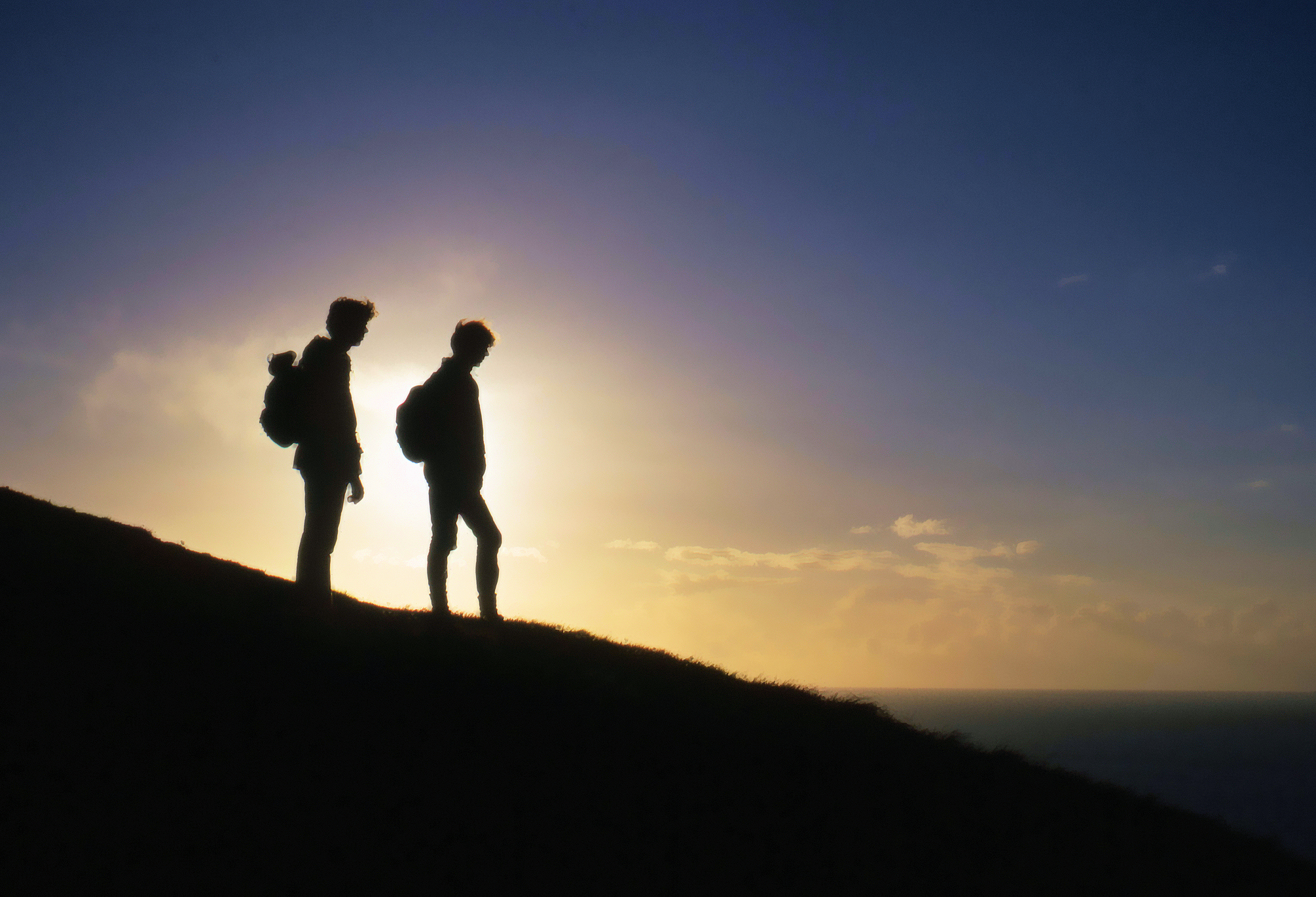 Contre-jour photograph of my two brothers, near Lulworth Cove, on the south coast of England. Photographed by Adrian Pingstone in approx 1970 and placed in the public domain.